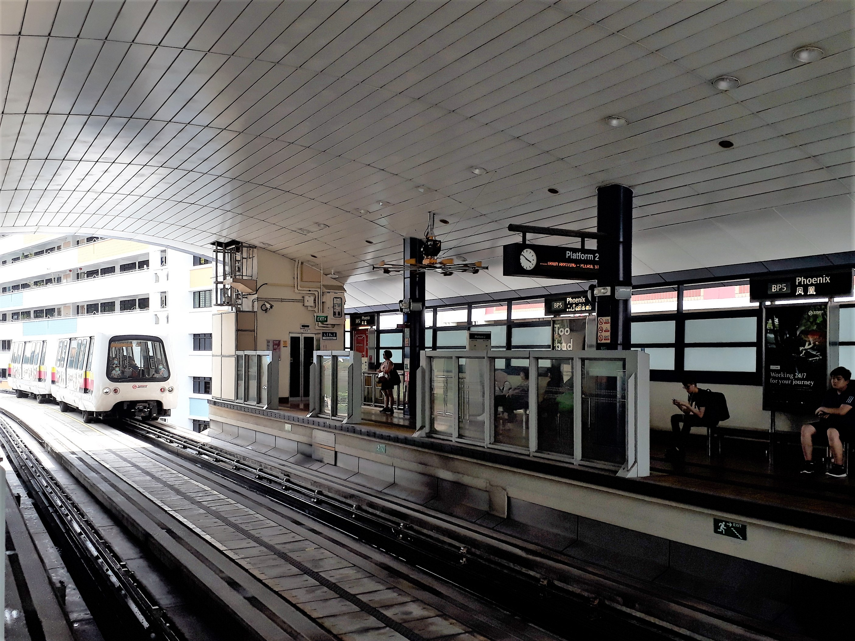 A C801A approaching Teck Whye